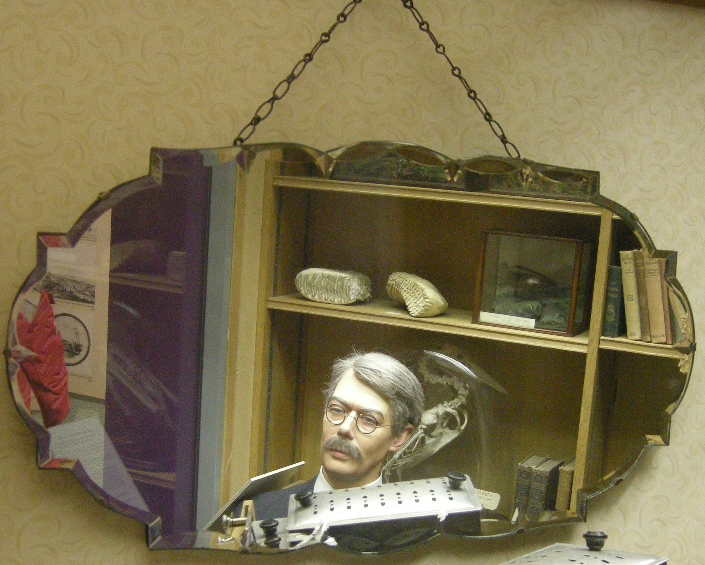 Reflection in mirror of the Dr Tom Bowes exhibit at Herne Bay Museum and Gallery. T.A. Bowes (1869-1954)was a local medical doctor and antiquarian who helped found the Herne Bay Records Society and Museum, which was later named Herne Bay Museum.